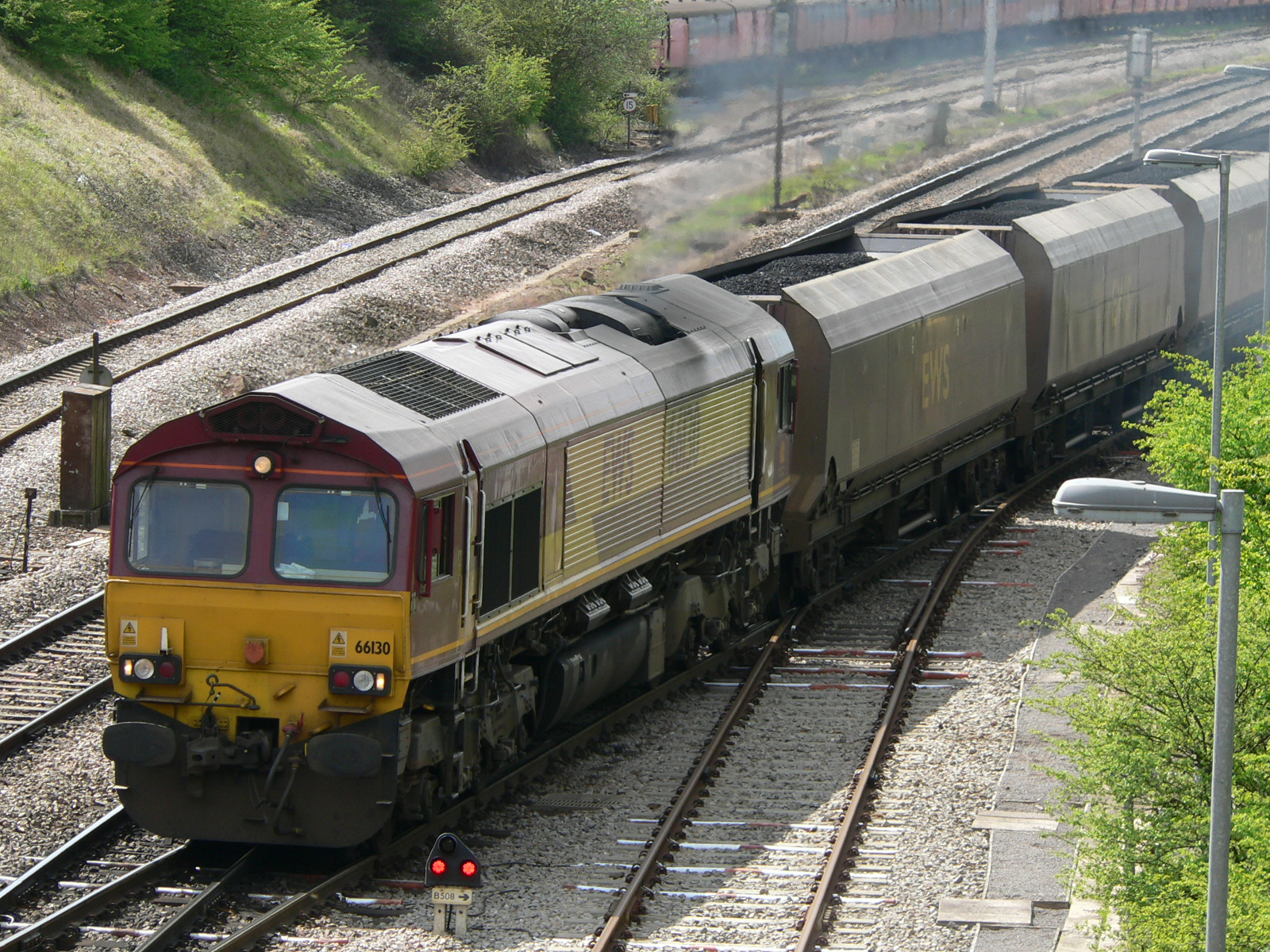 EWS Class 66 locomotive 66130 rejoins the South Wales Main Line at the eastern end of the goods loop at Bristol Parkway railway station with a loaded coal train. Having earlier brought a load of empties eastbound it is now making the return journey. Photographed looking west from the apparently unnamed bridge about a third of a mile east of Bristol Parkway station.